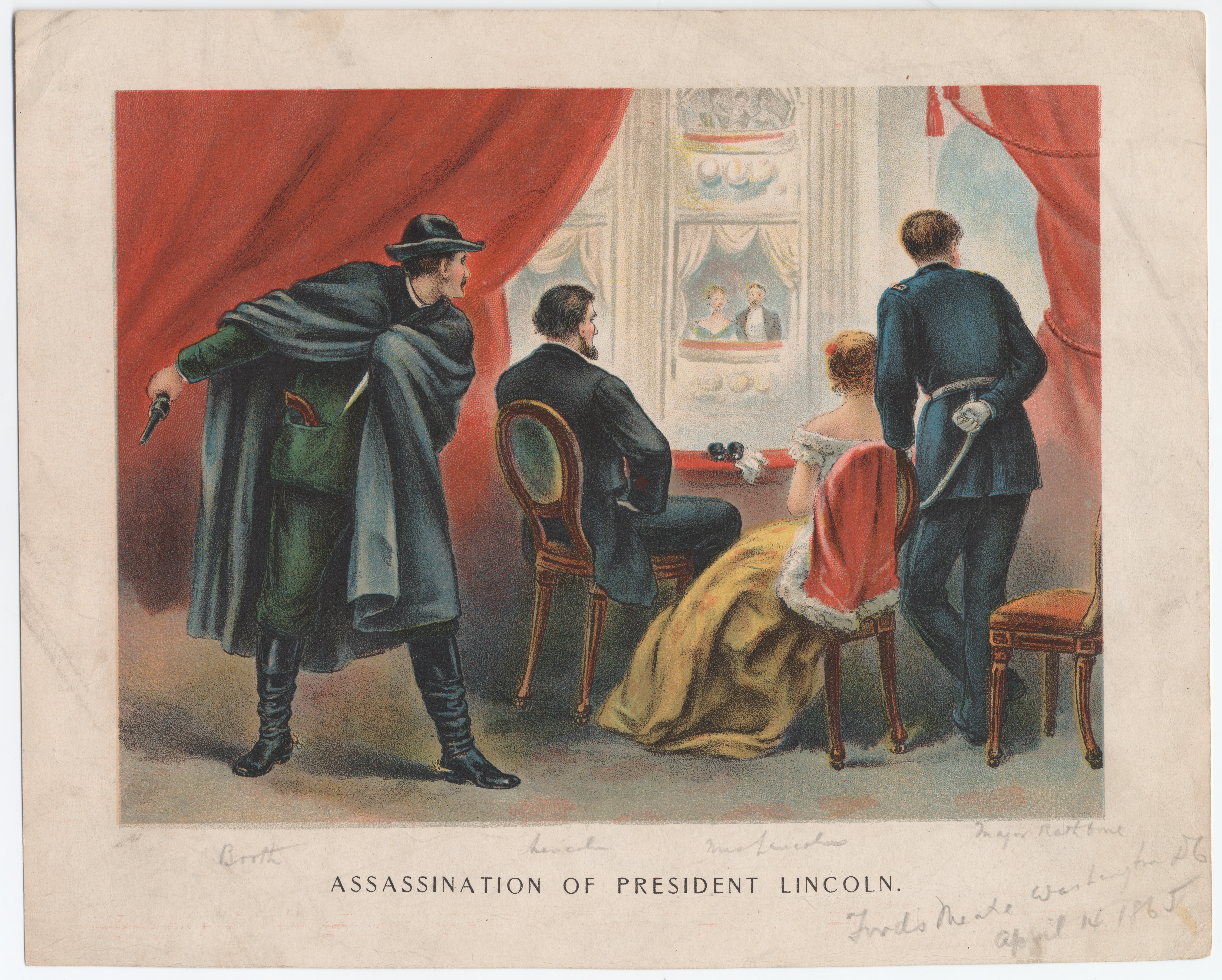 Painting depicting Lincoln's assassination. From left to right: John Wilkes Booth, Abraham Lincoln, Mary Todd Lincoln, Major Henry Rathbone.